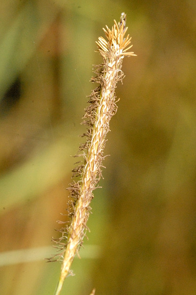 Carex rostrata from Commanster, Belgian High Ardennes .